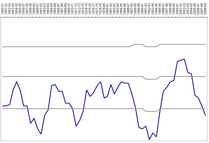 Graph showing league positions of Gillingham F.C. since 1950. Made by myself in Excel Source The Football Club History Database